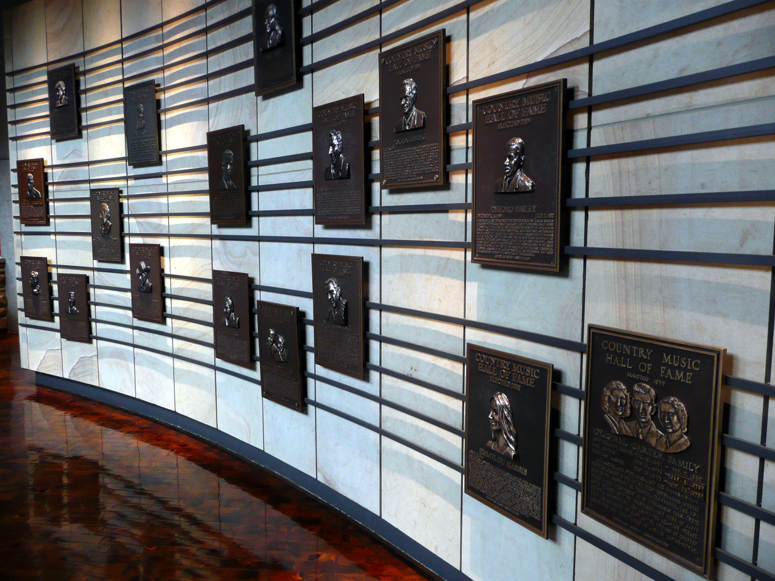 Plaques of inductees at the Country Music Hall of Fame in Nashville